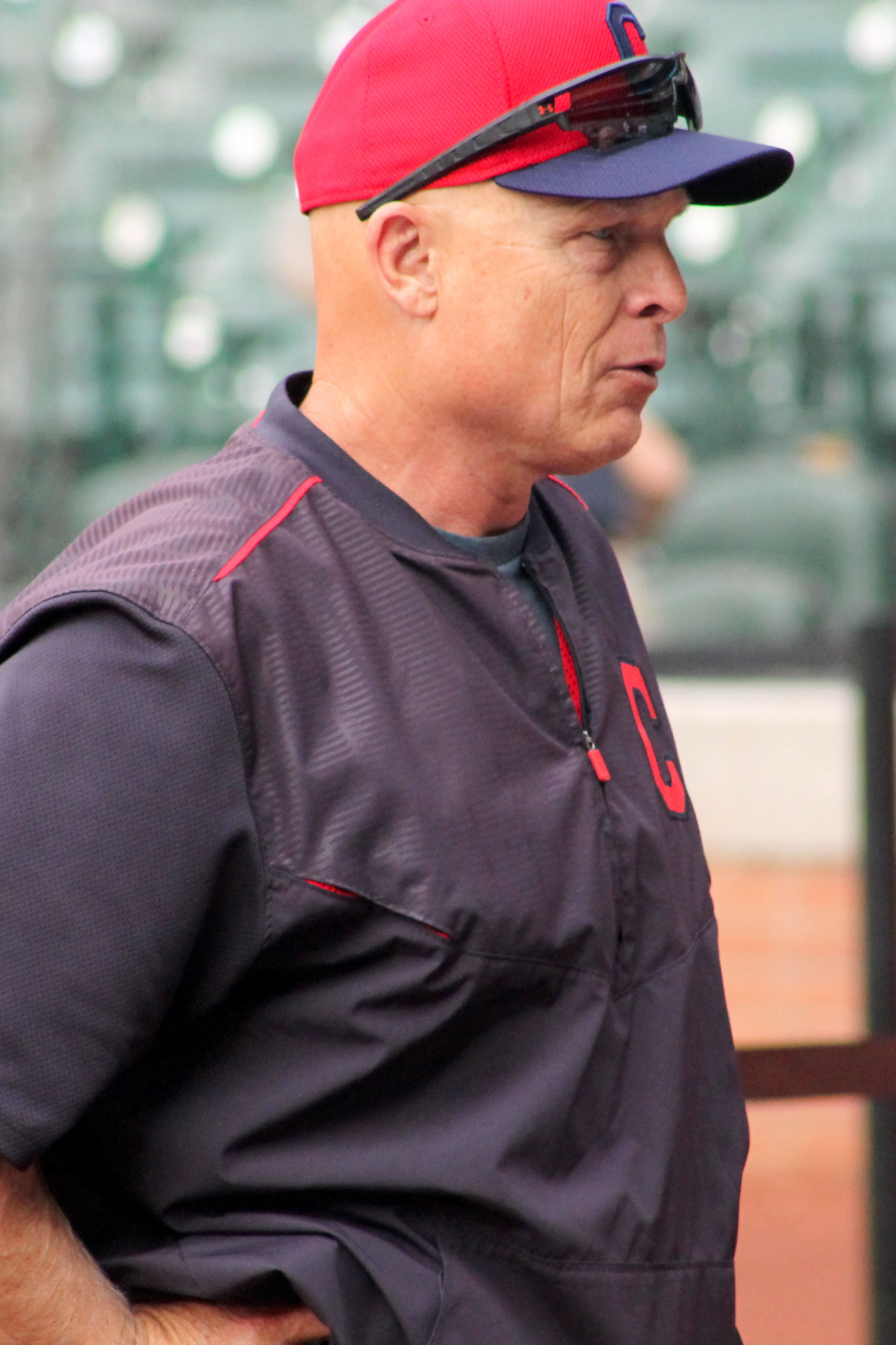 Major League Baseball manager Brad Mills at a game in Houston in April 2015.